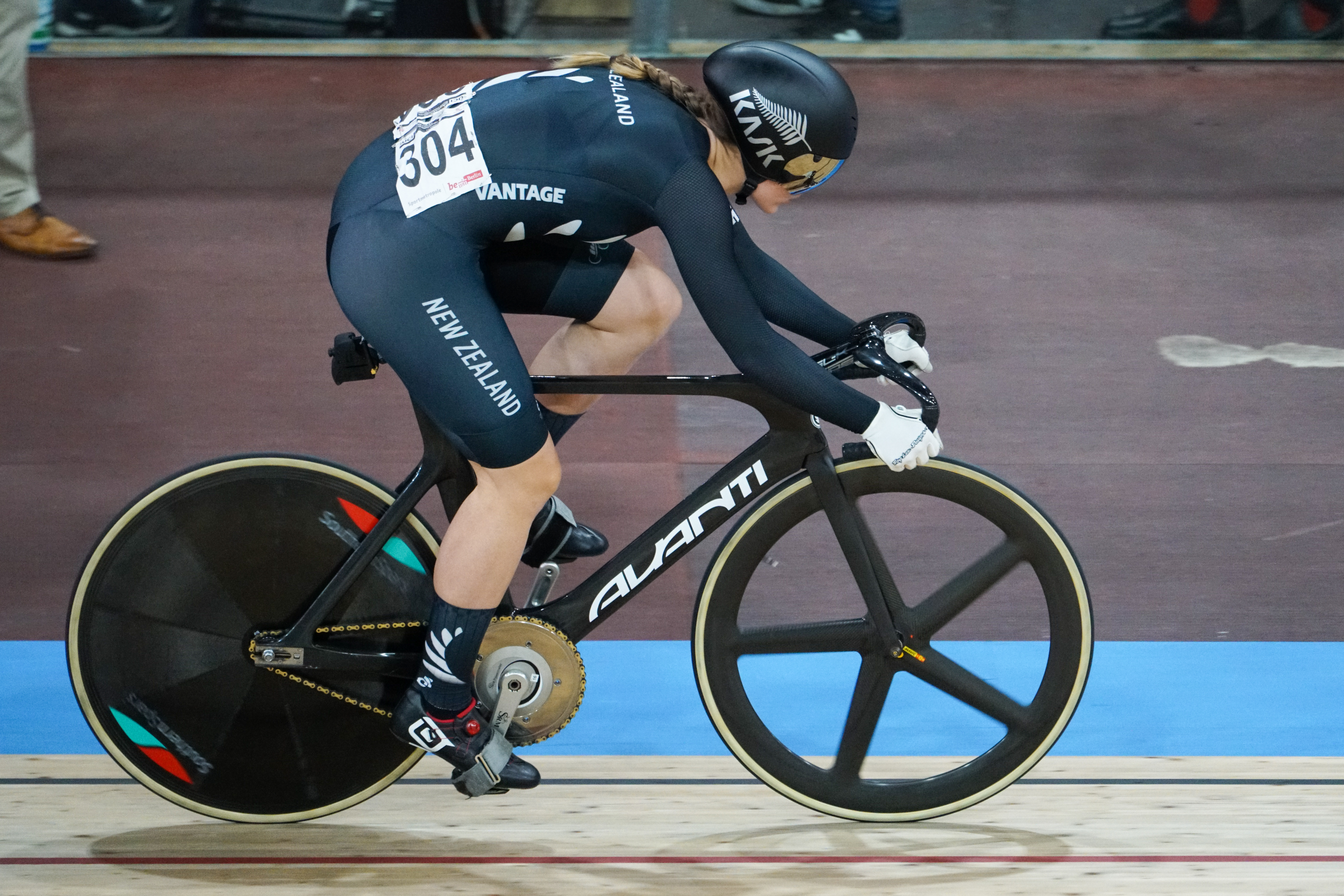 2020 UCI Track Cycling World Championships – Women's Keirin – Finals